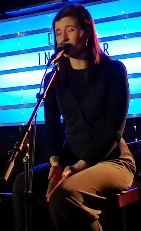 Madeline Juno during her Acoustic Tour 2019 at The Tube, Düsseldorf.